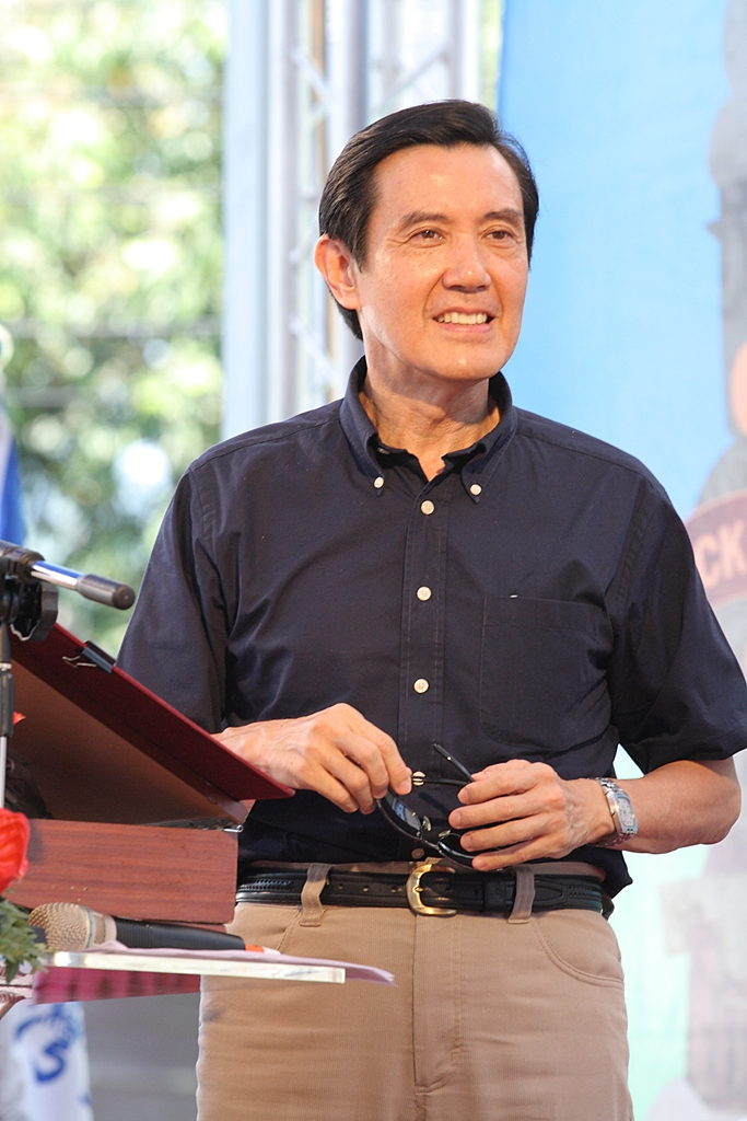 Ma Ying-jeou is the 12th and 13th President of the Republic of China (Taiwan).中文（中国大陆）: 马英九是中华民国(台湾)第12和13届的总统。